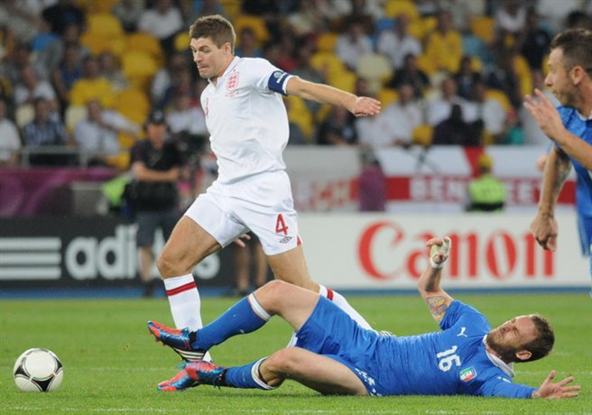 Steven Gerrard and Daniele De Rossi at Euro 2012 match England-Italy